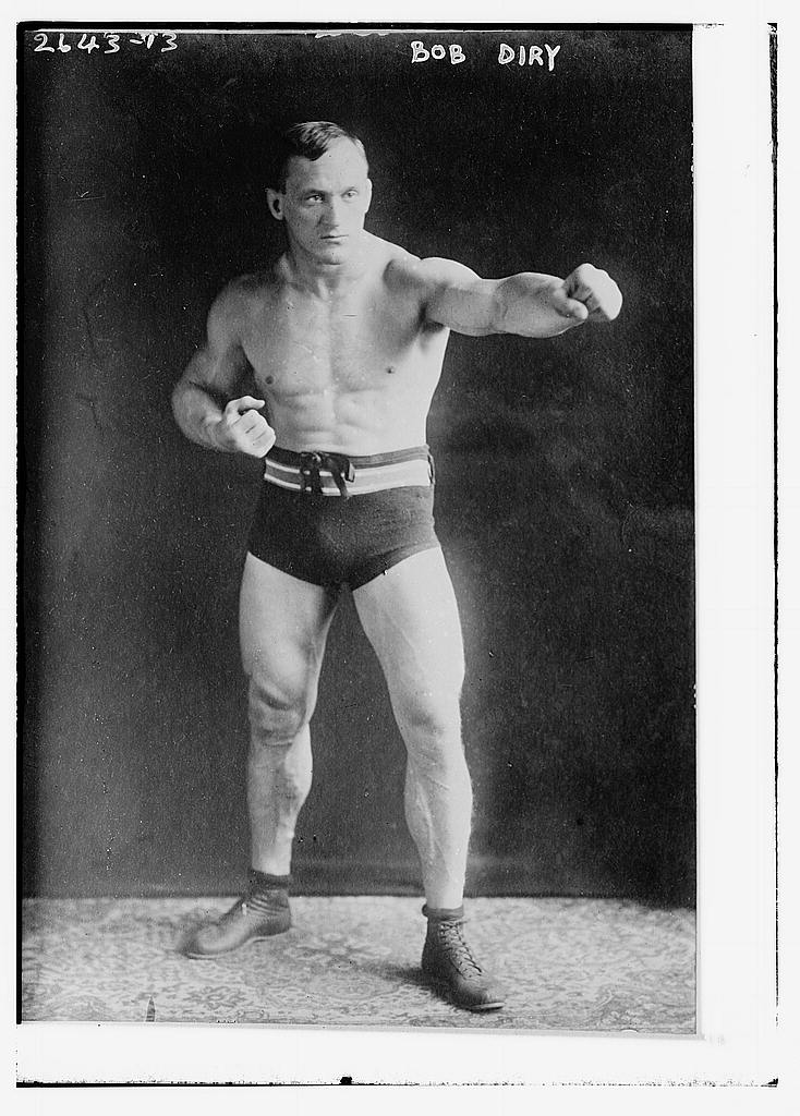 Bain News Service, publisher. Bob Diry [no date recorded on caption card] 1 negative : glass ; 5 x 7 in. or smaller. Notes: Title from unverified data provided by the Bain News Service on the negatives or caption cards. Forms part of: George Grantham Bain Collection (Library of Congress). Format: Glass negatives. Repository: Library of Congress, Prints and Photographs Division, Washington, D.C. 20540 USA, General information about the Bain Collection is available at Persistent URL: Call Number: LC-B2- 2643-13